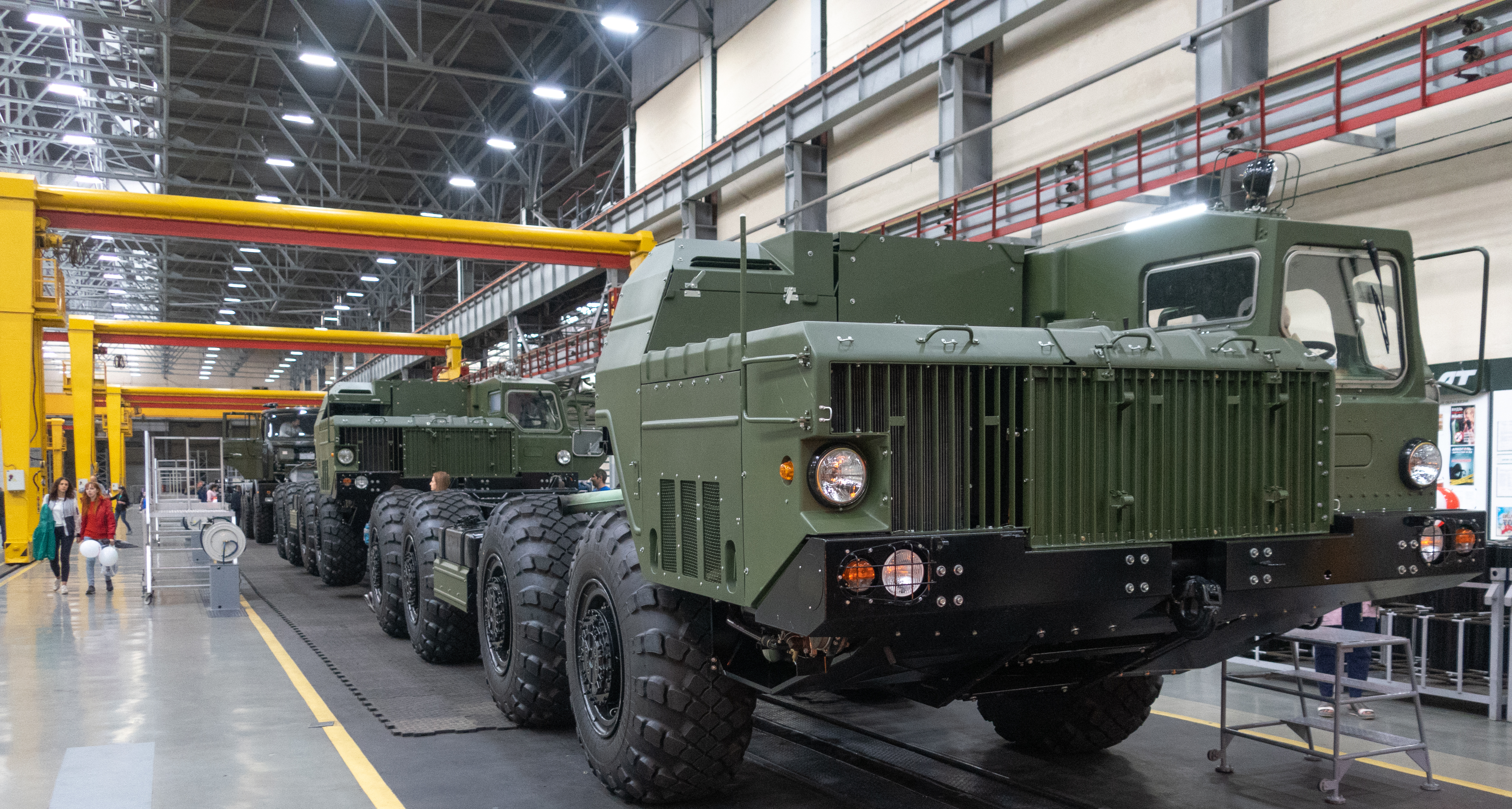 Seen at MZKT (Volat) open day 2019 (Minsk, Belarus)